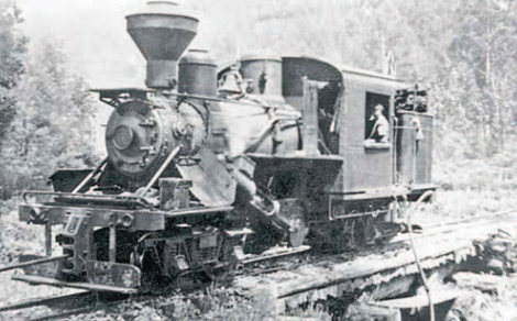 FVC climax steam engine - Collins Siding